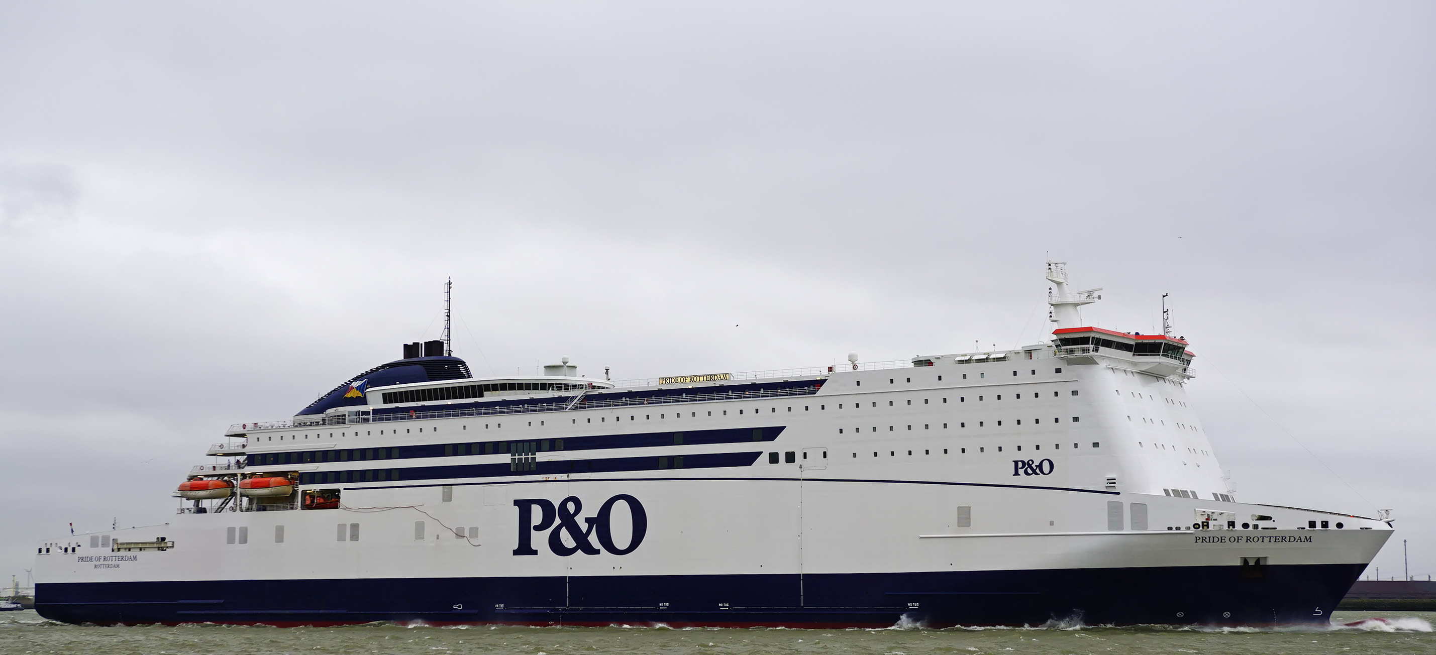 P&O ferry MS Pride of Rotterdam in Europoort. IMO Number: 9208617 MMSI Number: 244980000 Callsign: PBAJ Length: 214 m Beam: 32 m